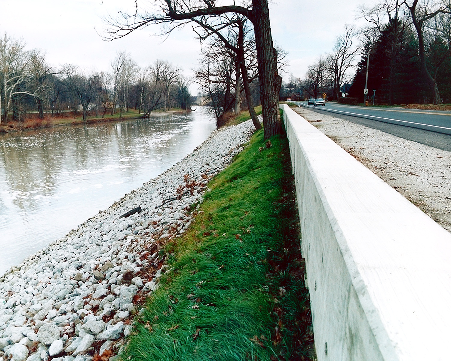 A part of the U.S. Army Corps of Engineers flood control project on the St. Joseph River in Fort Wayne, Indiana, USA.